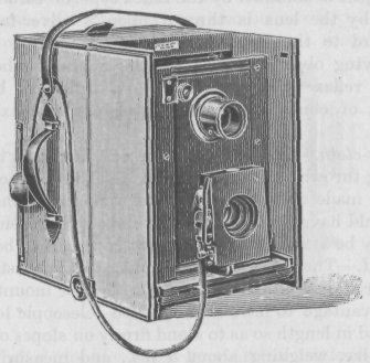 Twin Lens Camera sketch from Hints to Travellers: Scientific and General (pre 1923)